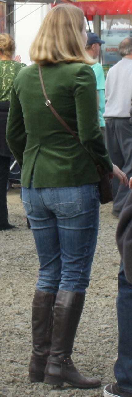 woman wearing knee-length boots over jeans, 2010